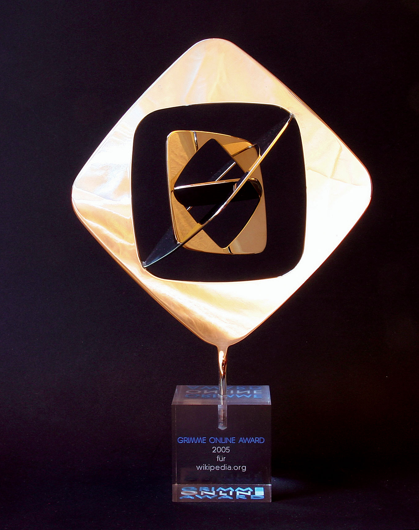 Grimme Online Award 2005 for German Wikipedia.